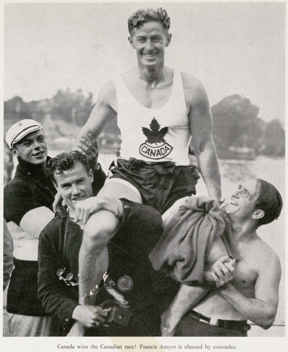 "Canada wins Canadian race! Frances Amyot is cheered by comrades."